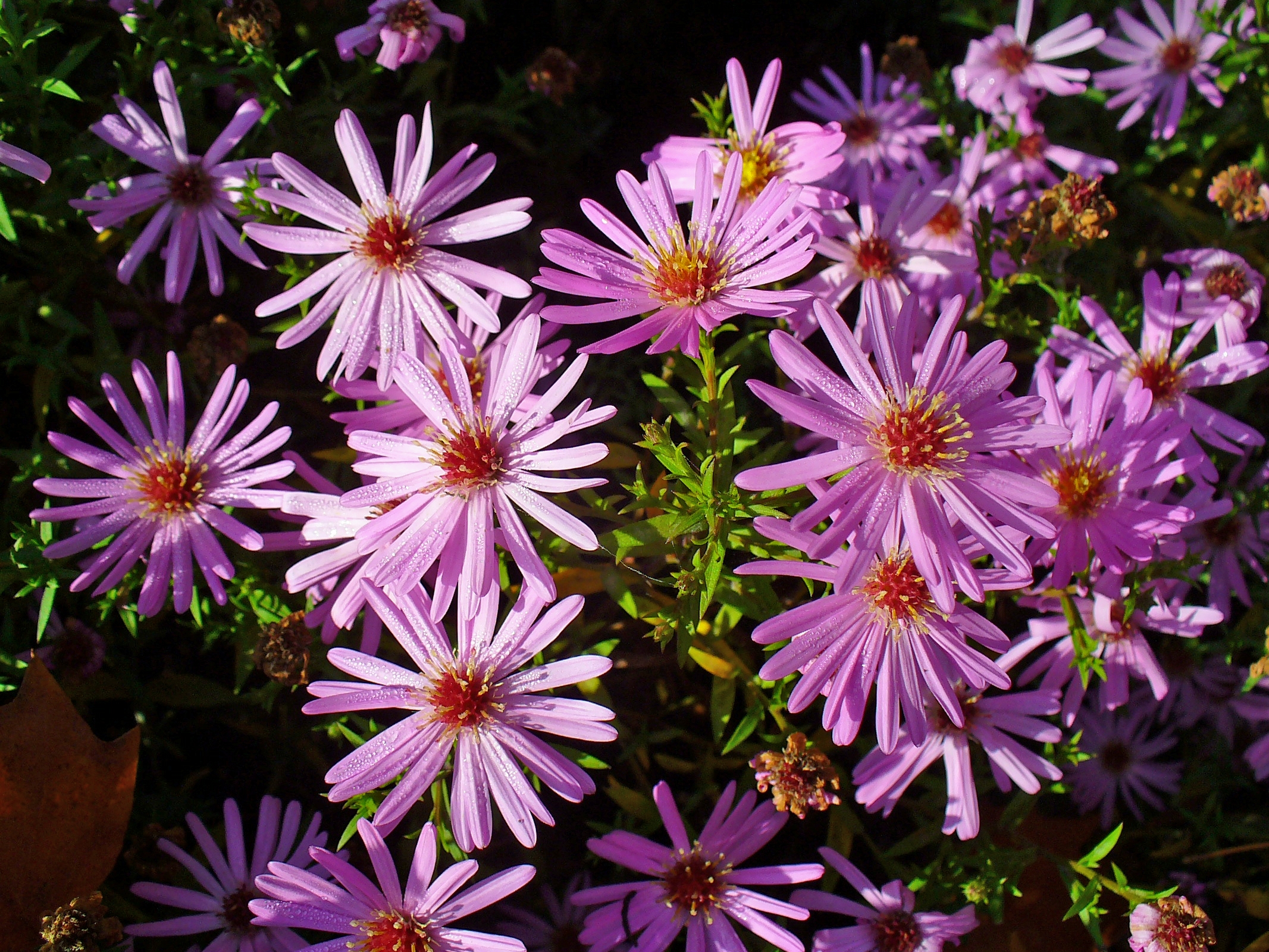 Bushy Aster; Botanic Garden, University of Heidelberg, Germany.